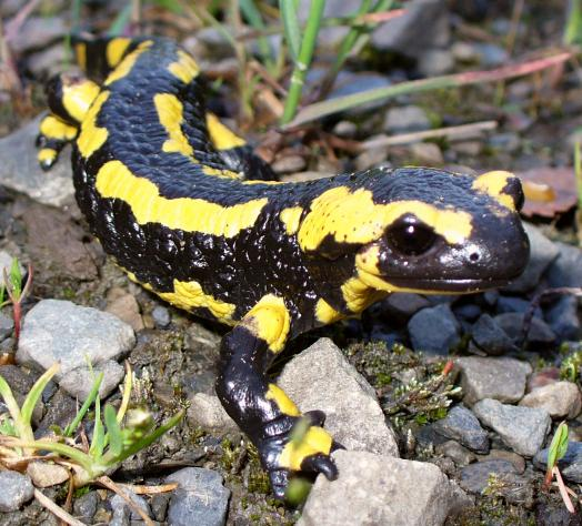 Fire Salamander pictured in Walpersdorf, NRW, Germany near a wood, Salamander (Salamandra salamandra)